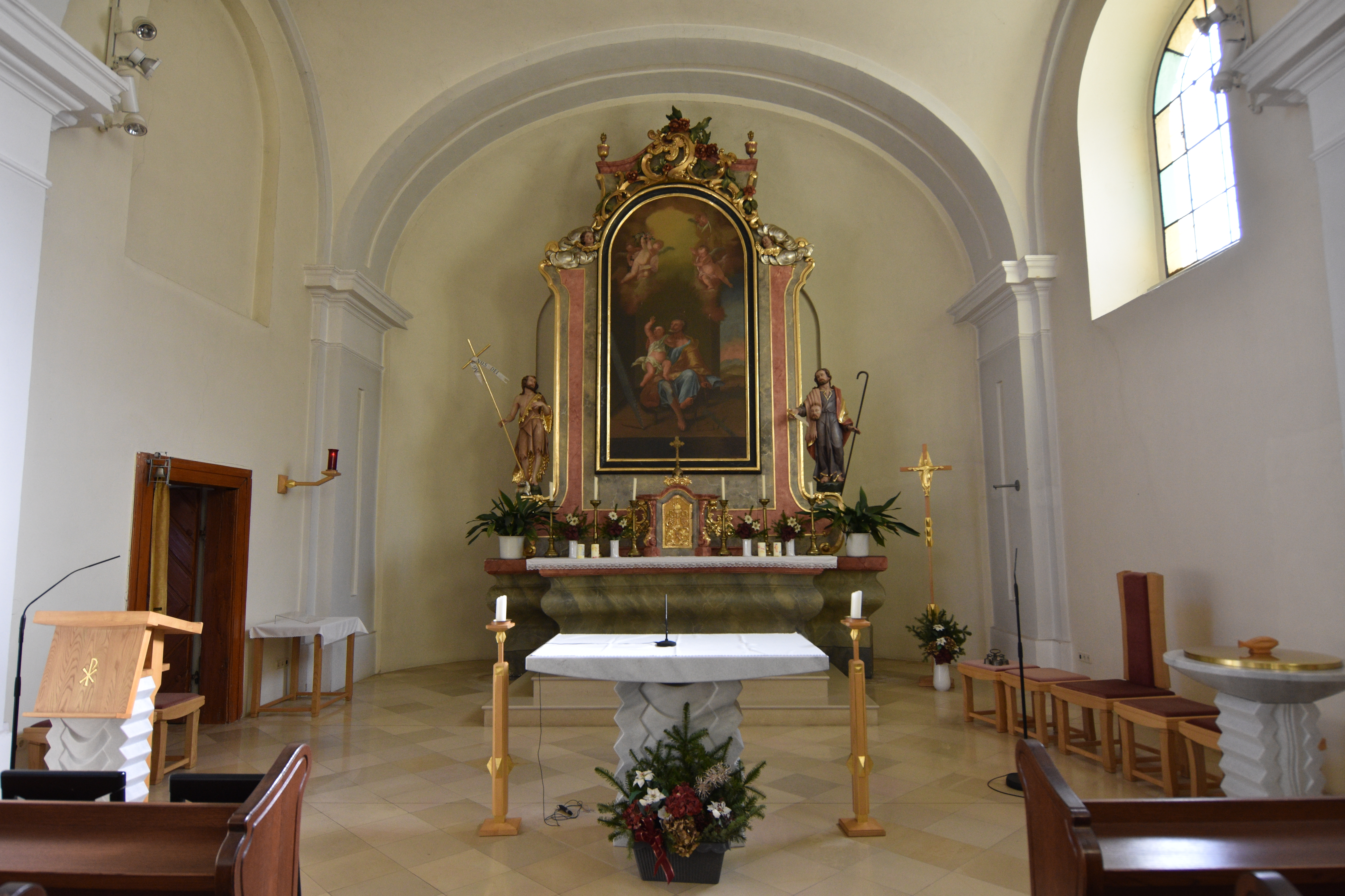 Church Kukmirn Interior